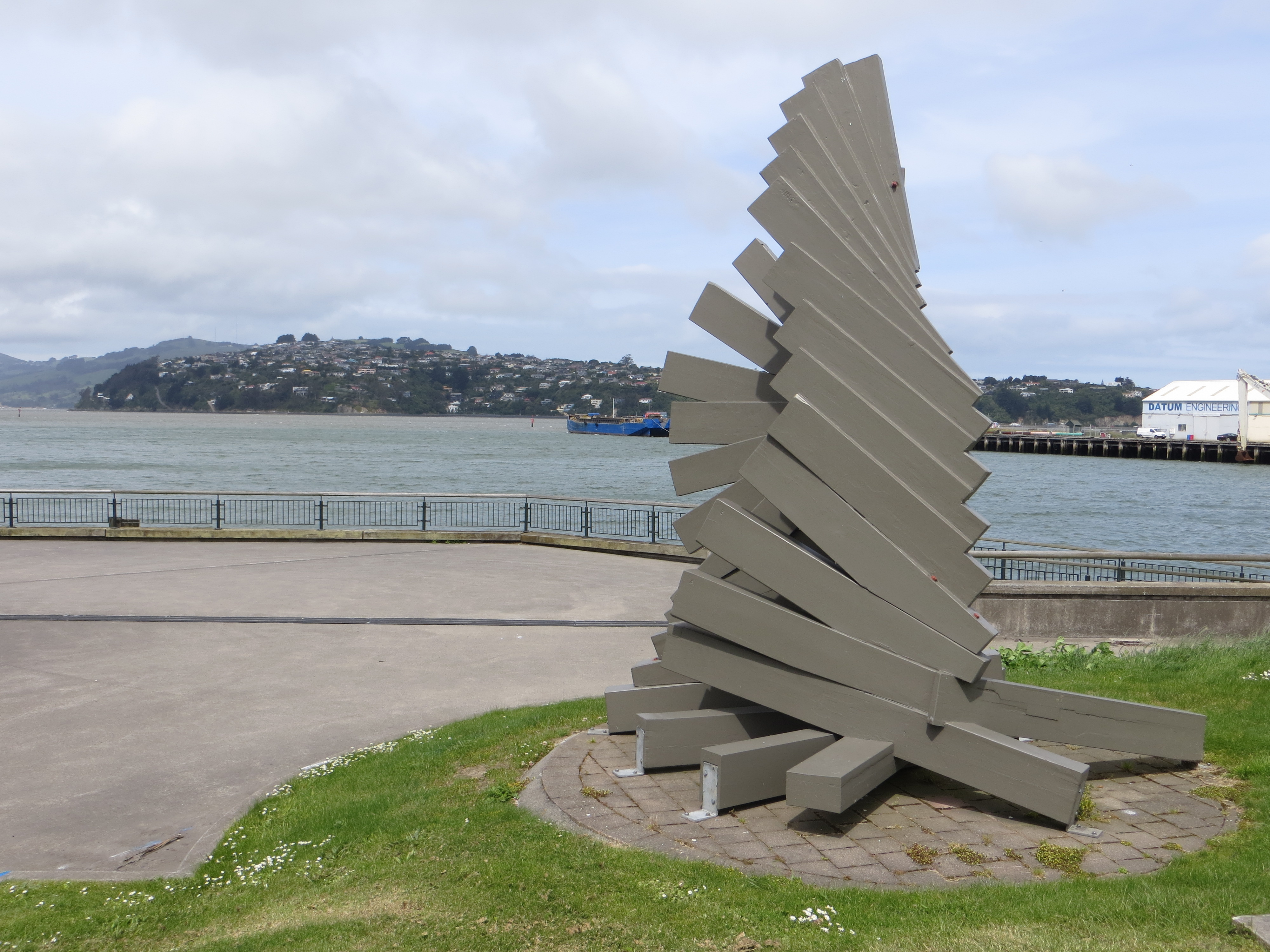 An image of the 1989 sculpture Toroa by Peter Nicholls, situated on Otago Harbour near the centre of Dunedin, New Zealand.